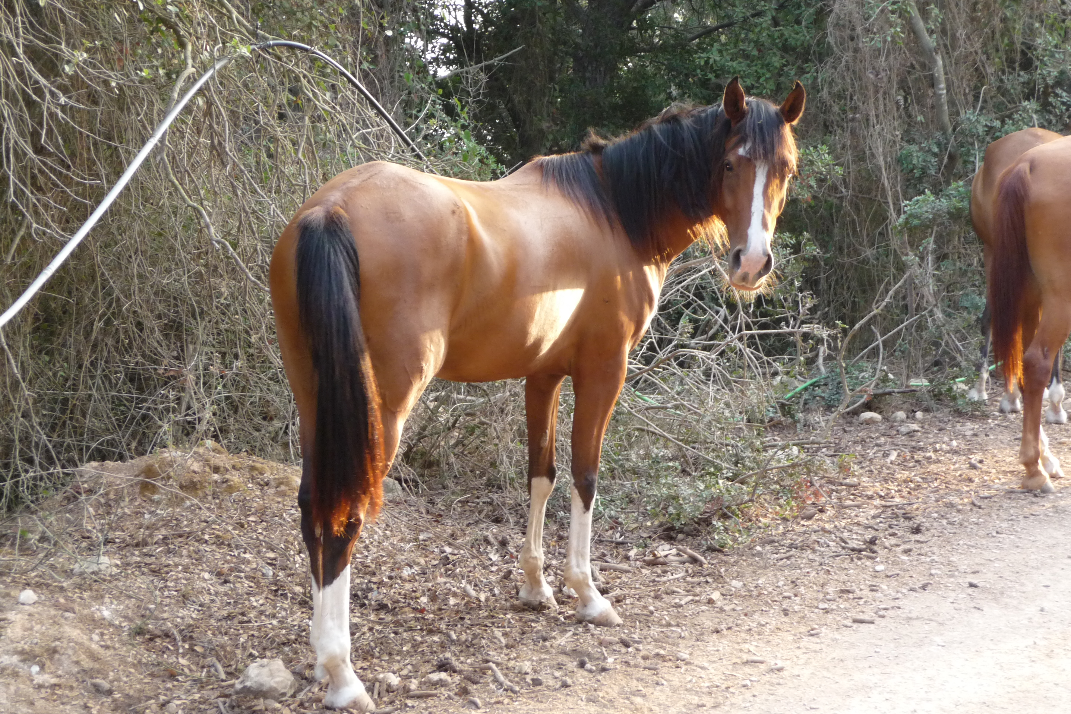 Beit Oren is a kibbutz in northern Israel. It falls under the jurisdiction of Hof HaCarmel Regional Council.